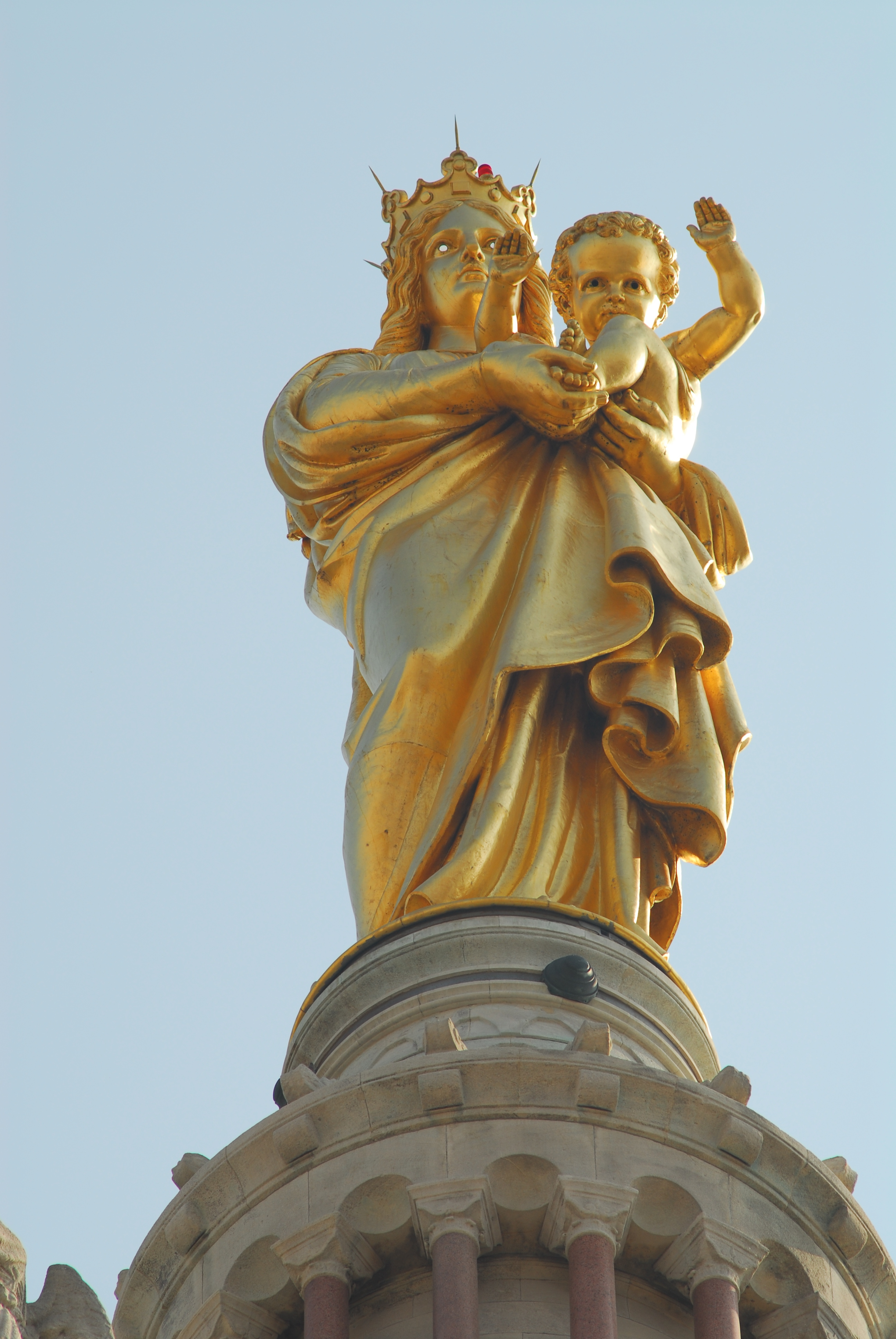 The golden statue on top of Notre Dame de la Garde, Marseille, France.